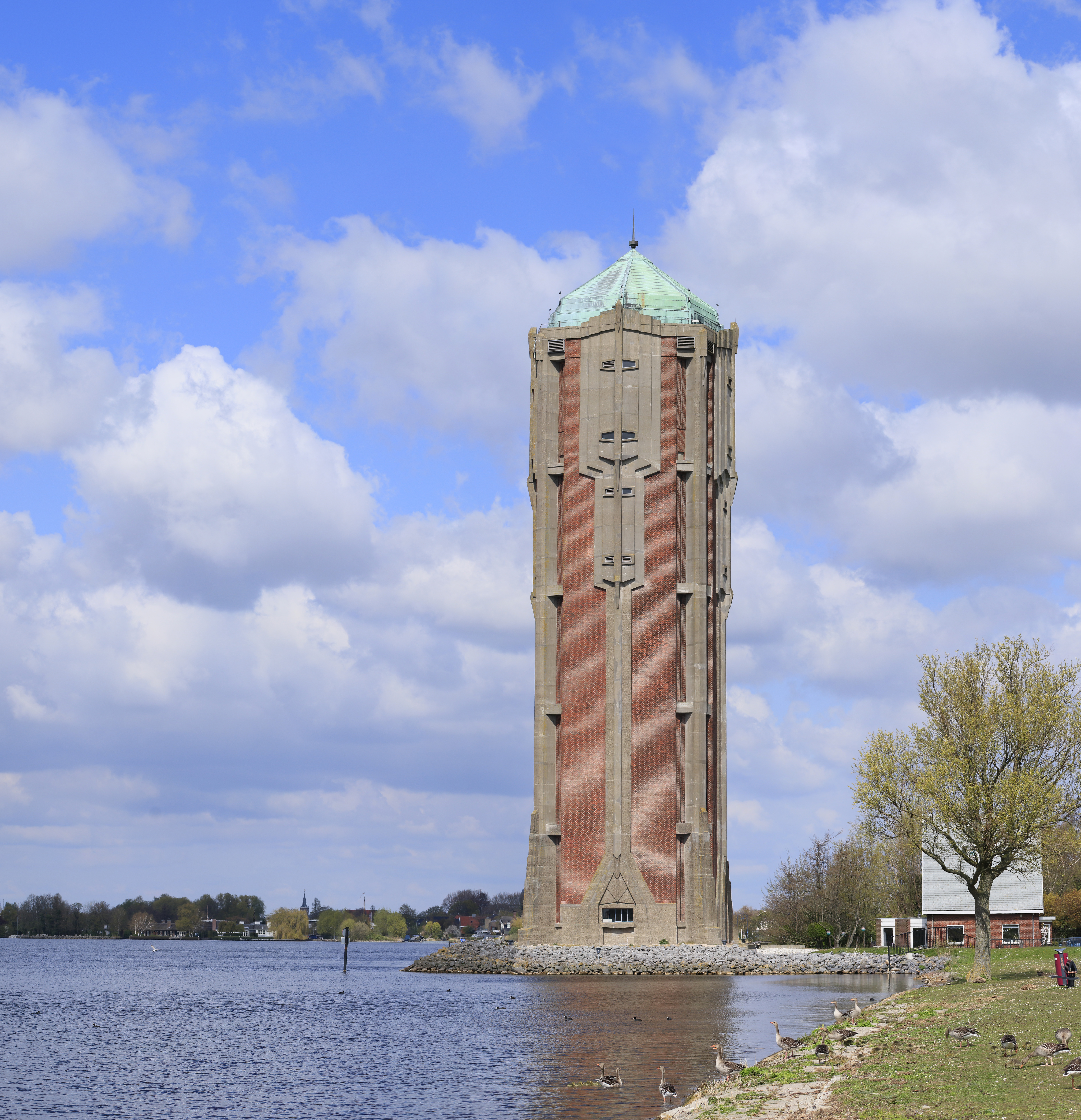 Water tower of Aalsmeer Location: 52° 15′ 17,69″ N, 4° 45′ 26,66″ E